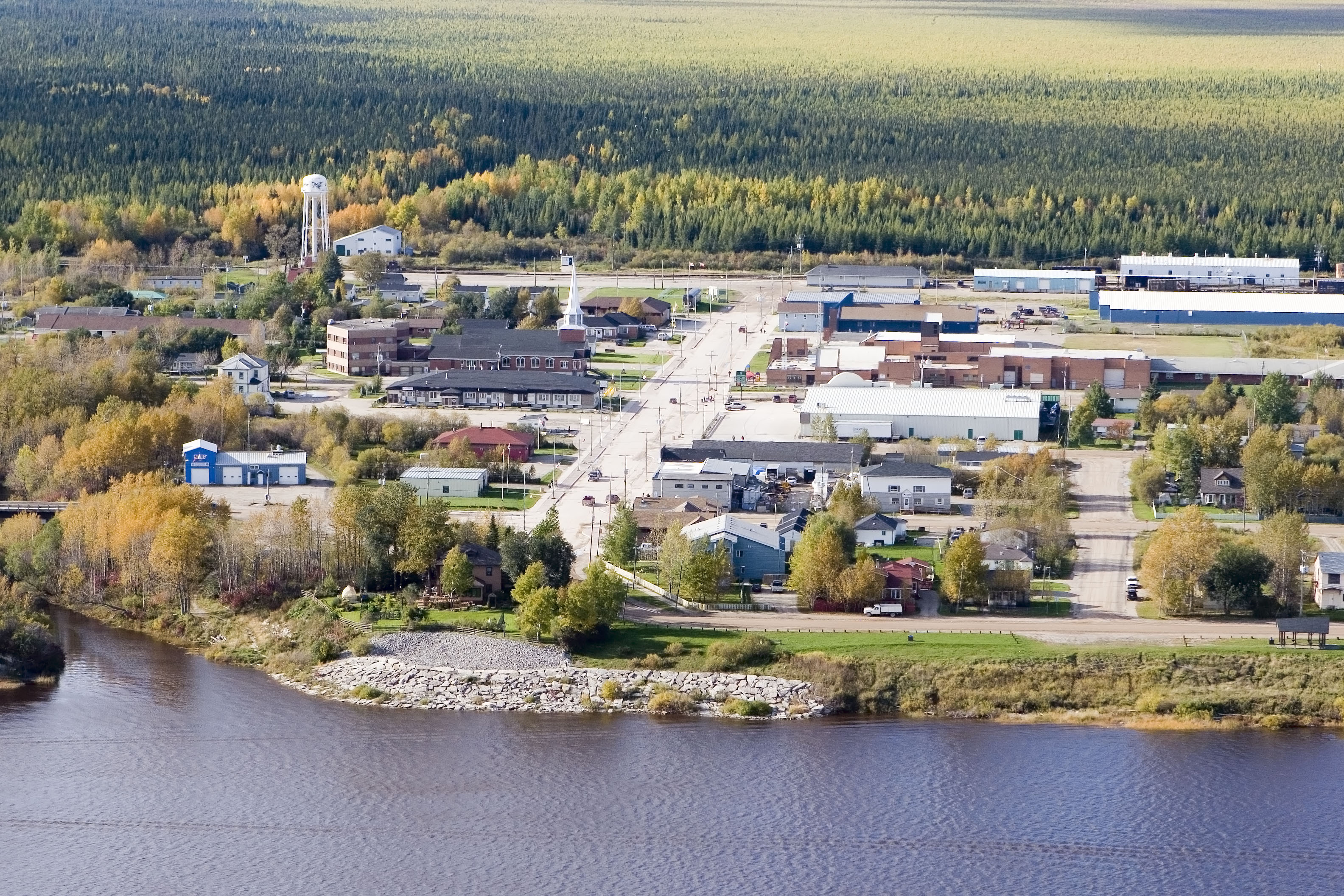 Aerial photograph of downtown Moosonee, Ontario taken on 2005 October from a helicopter flying over the Moose River. Store Creek is shown running vertically in the picure.